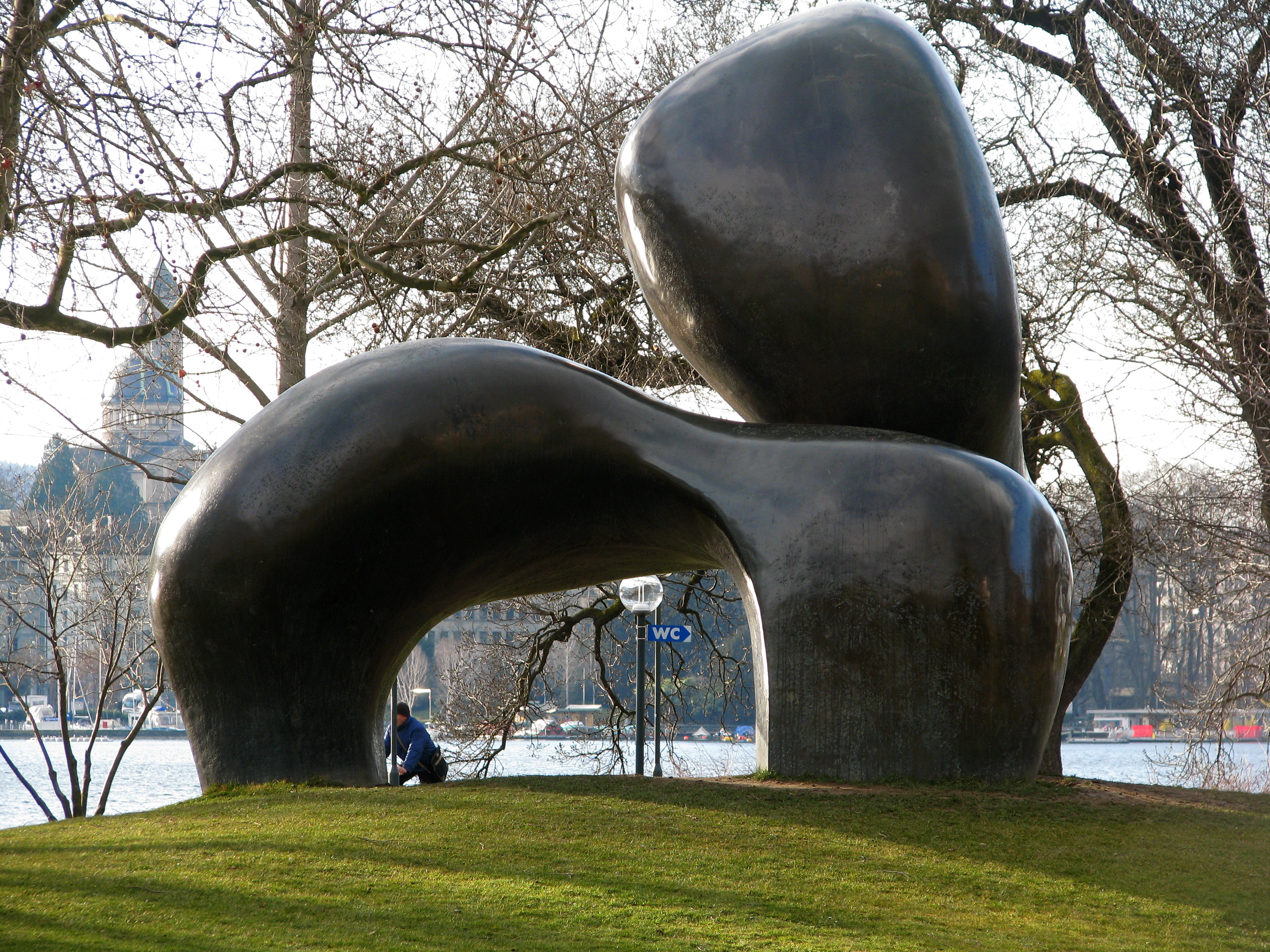 Zürich-Seefeld : Sheep Piece by Henry Moore at Riesbach harbour.